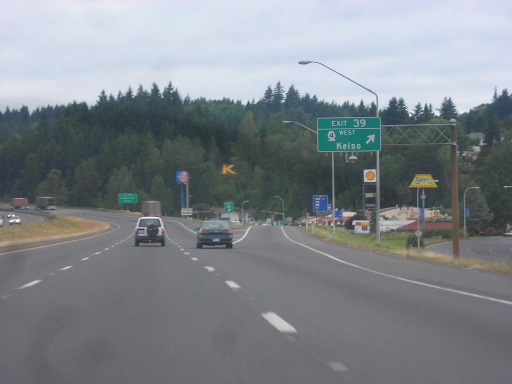 Interstate 5 northbound at exit 39, the eastern terminus of Washington State Route 4 in Kelso, Washington.